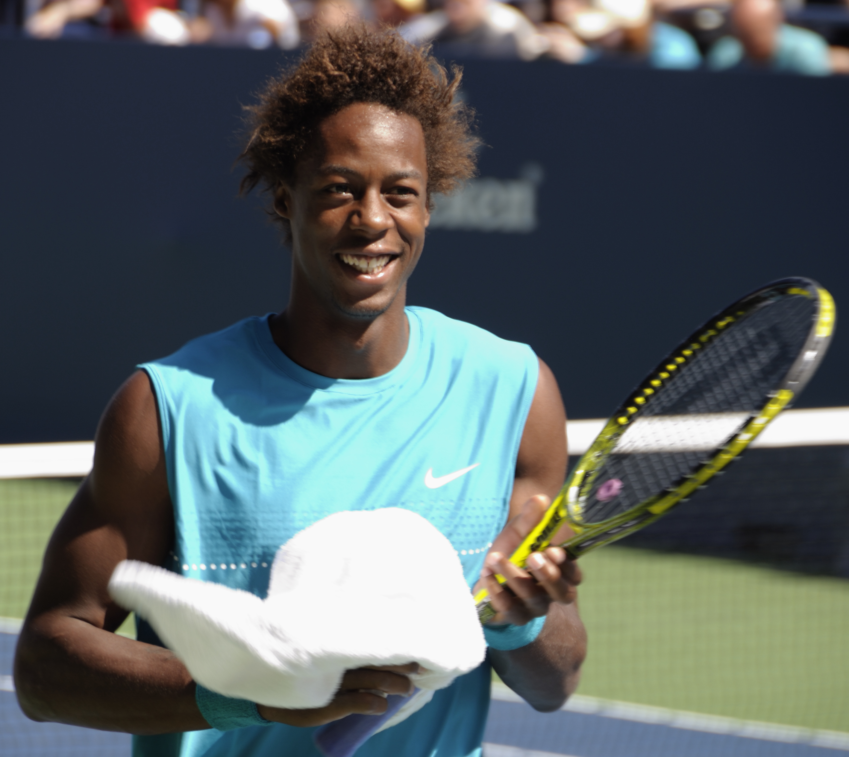 Gaël Monfils at the 2009 US Open